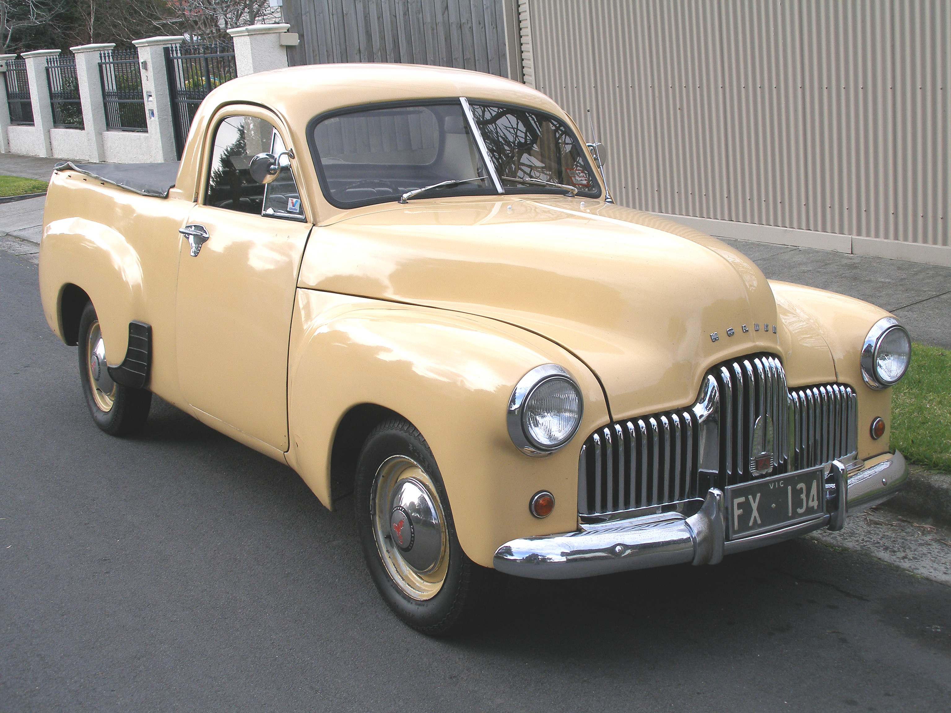 1951-1953 Holden 50-2106, photographed in Victoria, Australia.